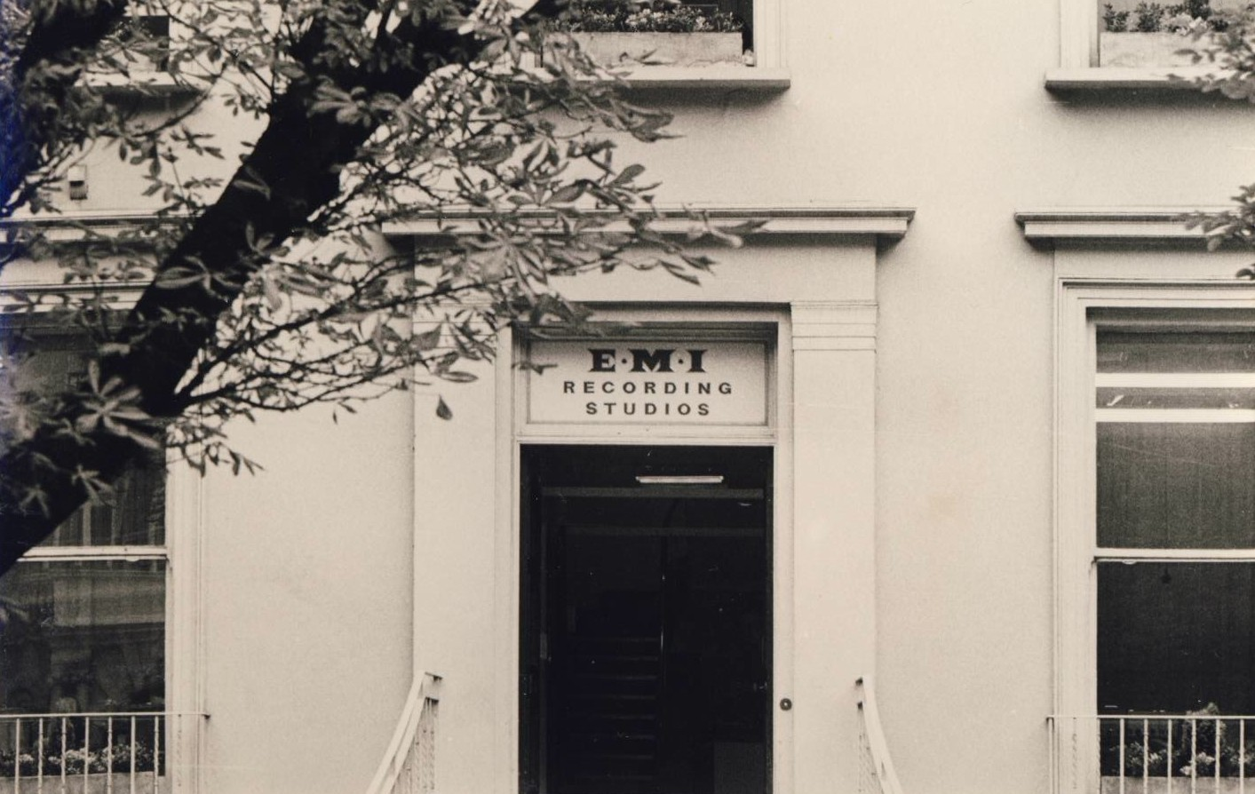 EMI Recording Studios (Abbey Road Studios)